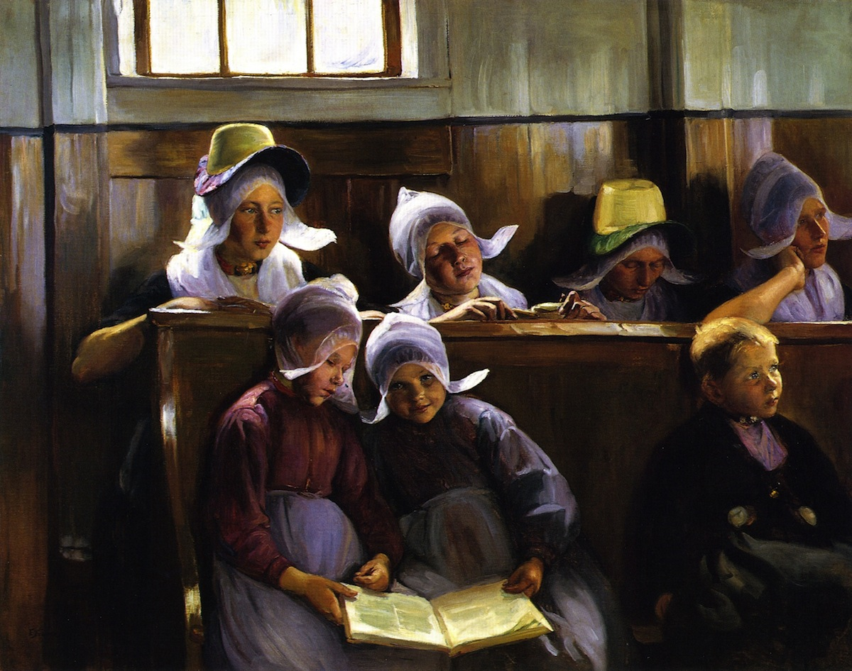 The church at Volendam